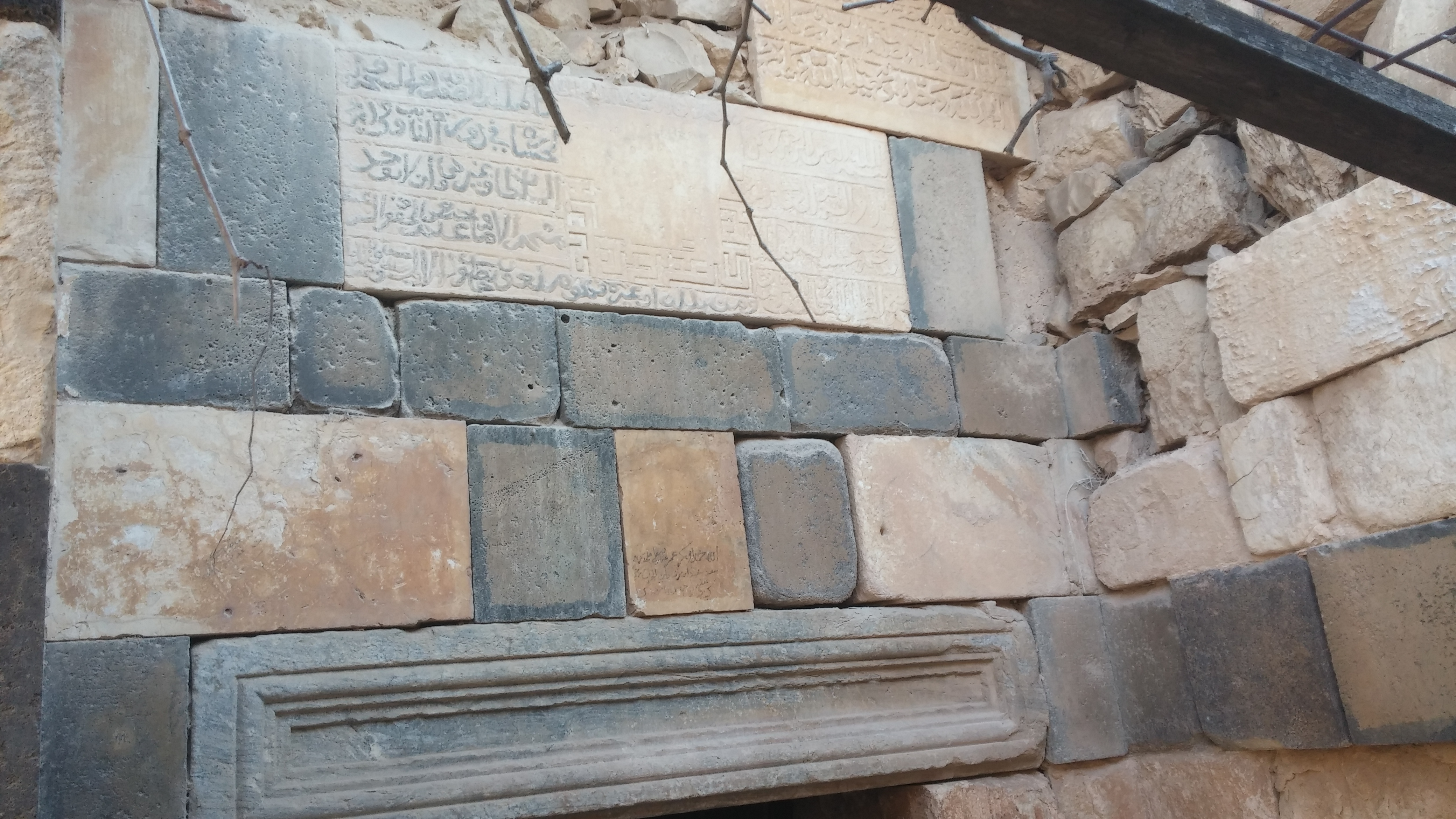 Mamluk Mausoleum in Safed